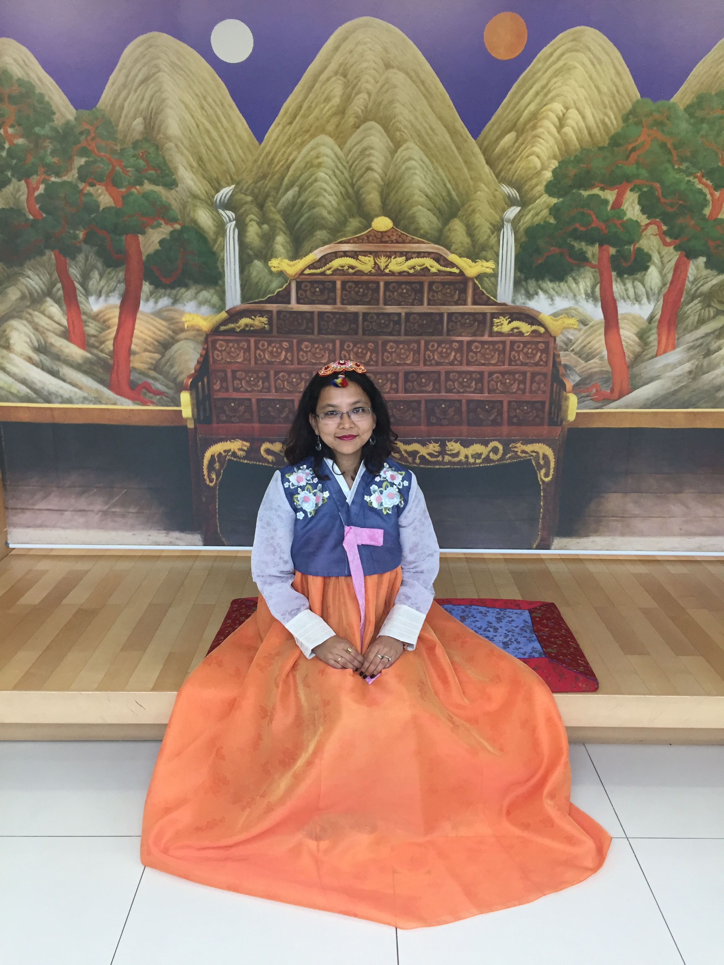 Nepali Girl in Hanbok